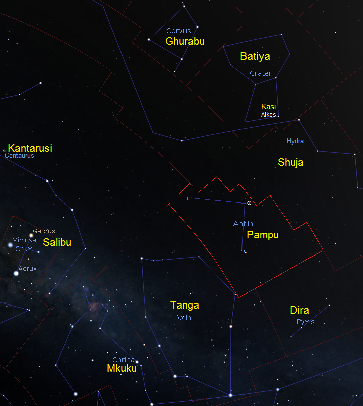 Constellation Antlia as seen from Tanzania, swahili labelled Kiswahili: Kundinyota ya Pampu jinsi inavyoonekana Dar es Salaam